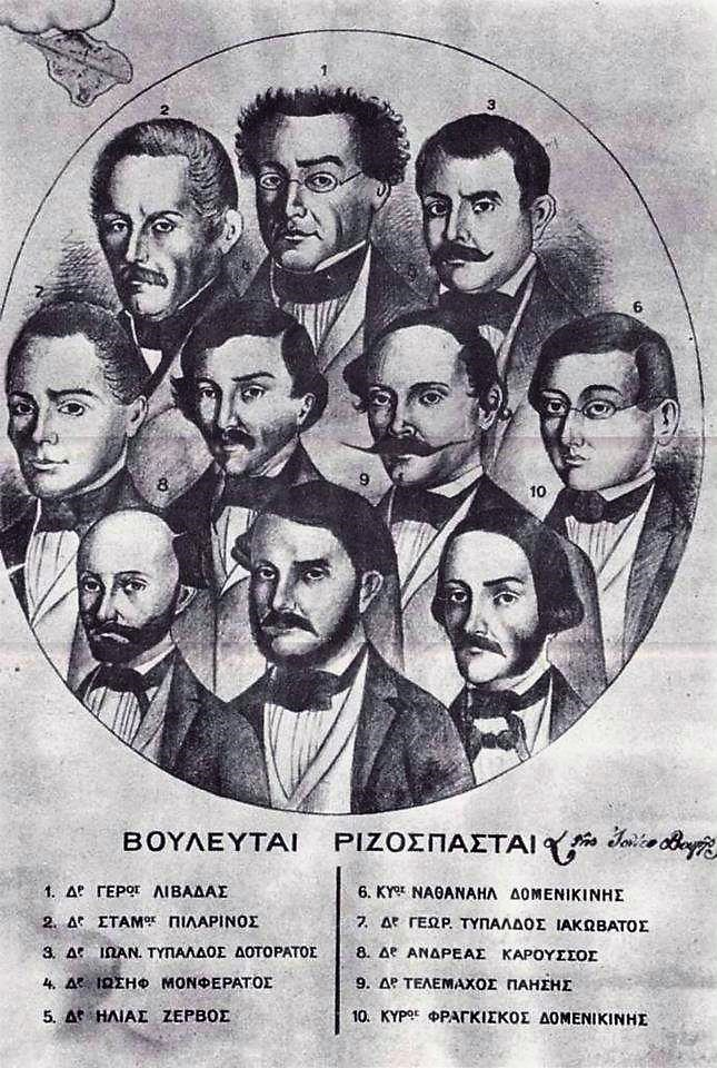 Radical Party members of the Ionian Parliament